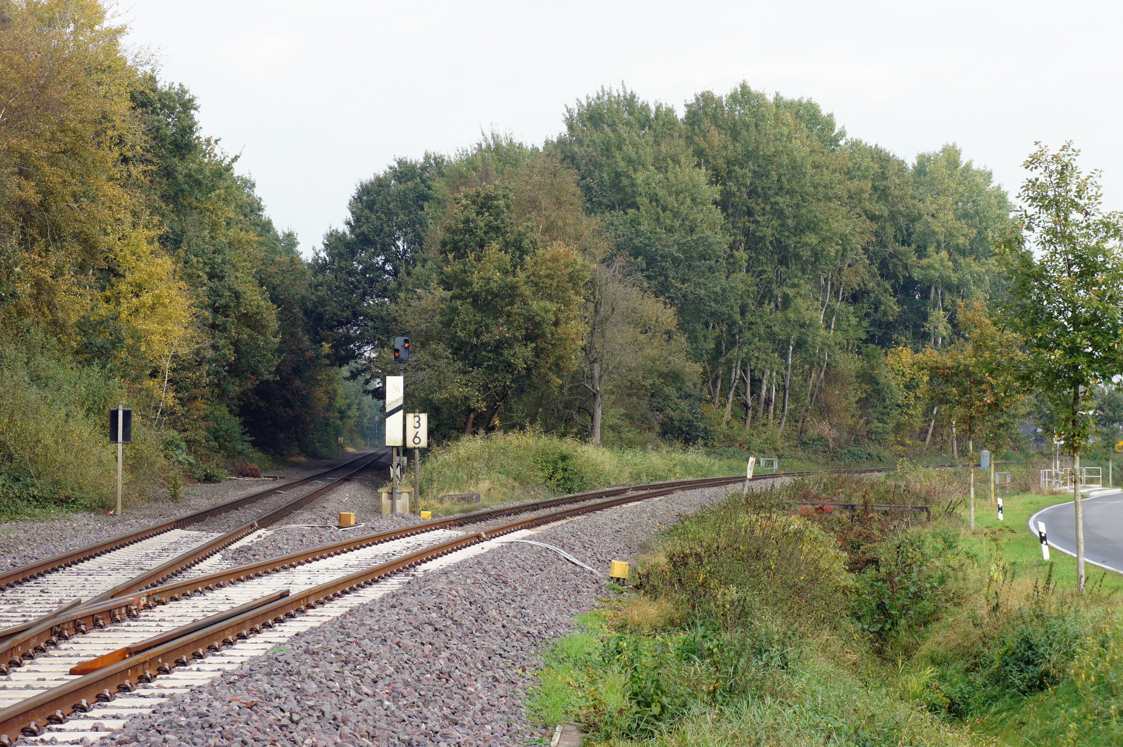 Right the Hemmelsberger Kurve, from south comming